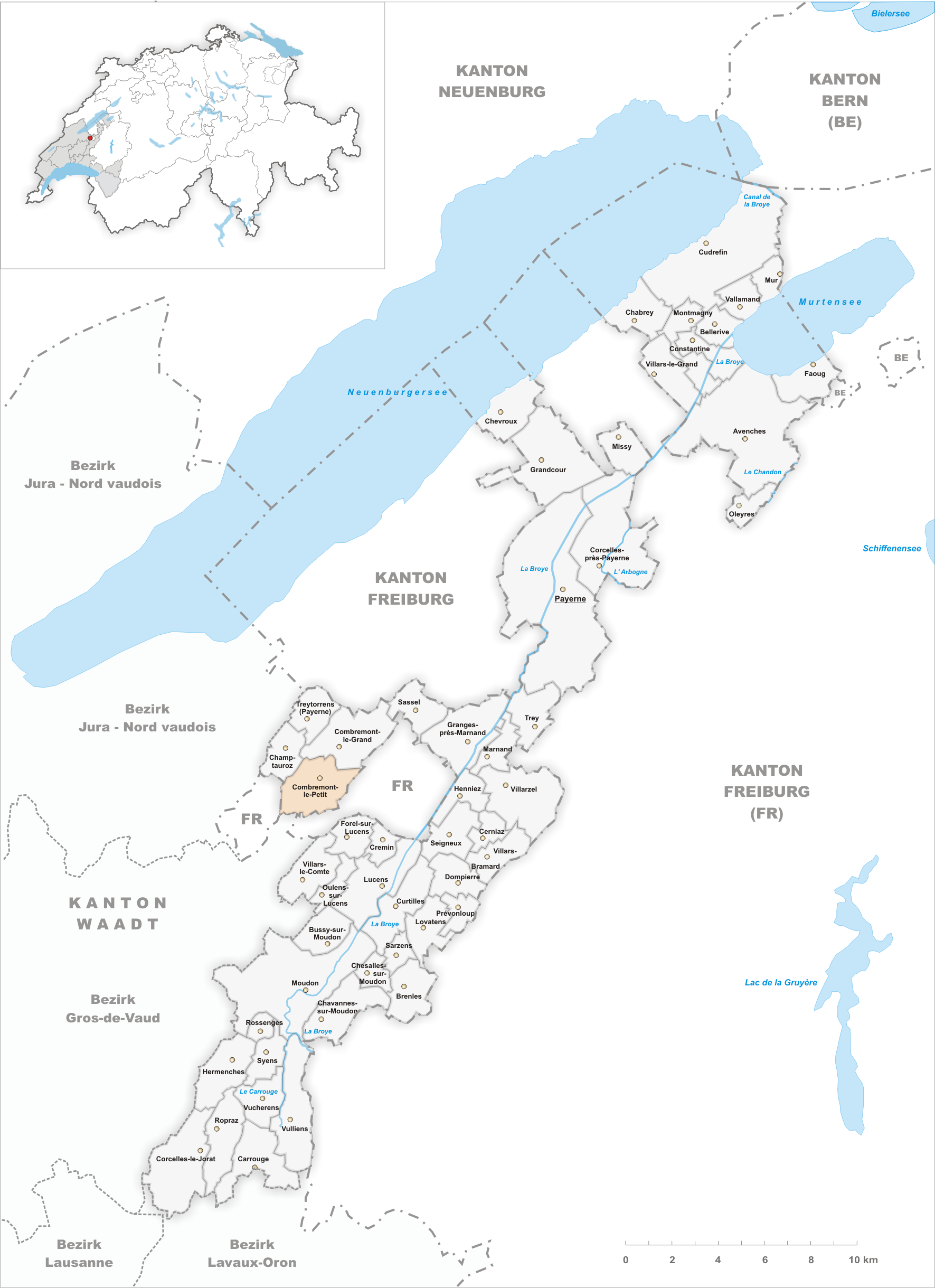 Municipality Combremont-le-Petit